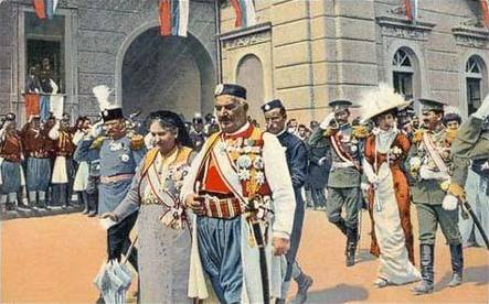 The Day of Proclamation (28 August 1910) of the Kingdom of Montenegro. Ceremony in Cetinje.